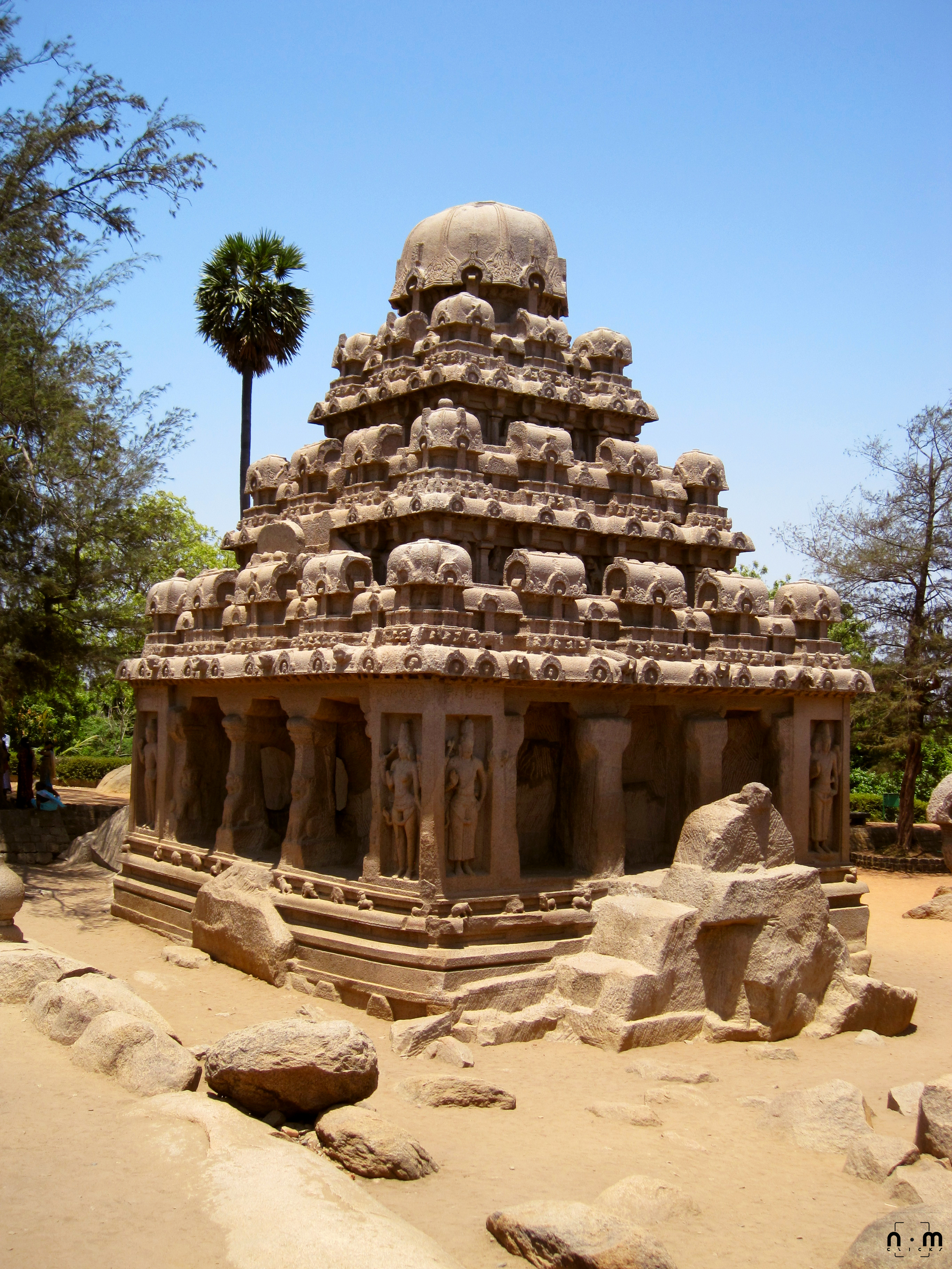 Located in Mahabalipuram,this temple is said to be pulled by 5 huge stone horses which are now buried deep into the ground.